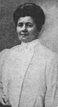 Black-and-white portrait of a woman (Anna Hamilton) in a white doctor's smock, from a 1919 publication.